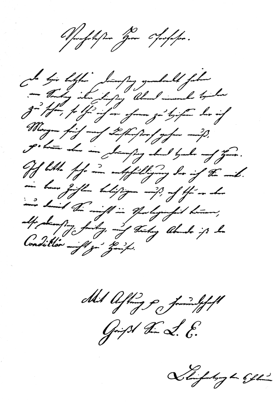 Letter send from Elise Egloff to Jacob Henle